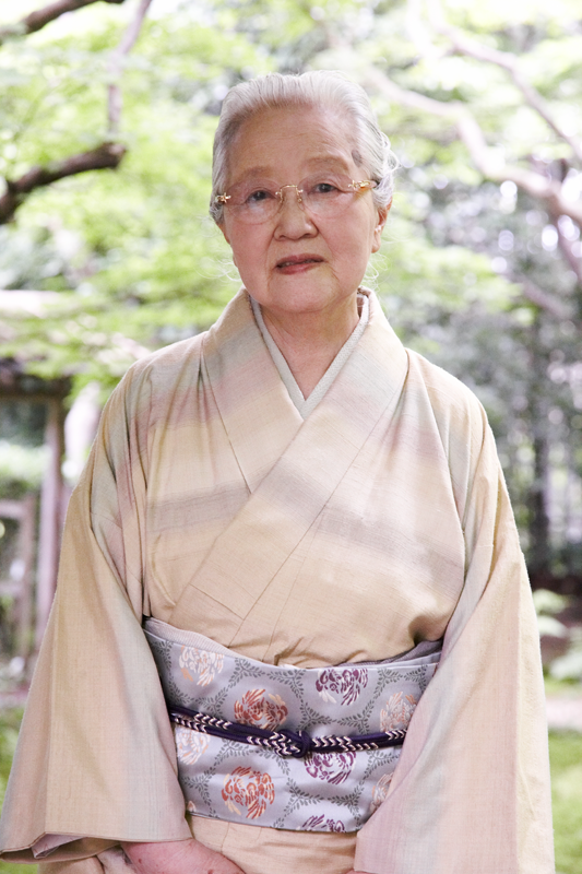 Fukumi Shimura, japanese weaver